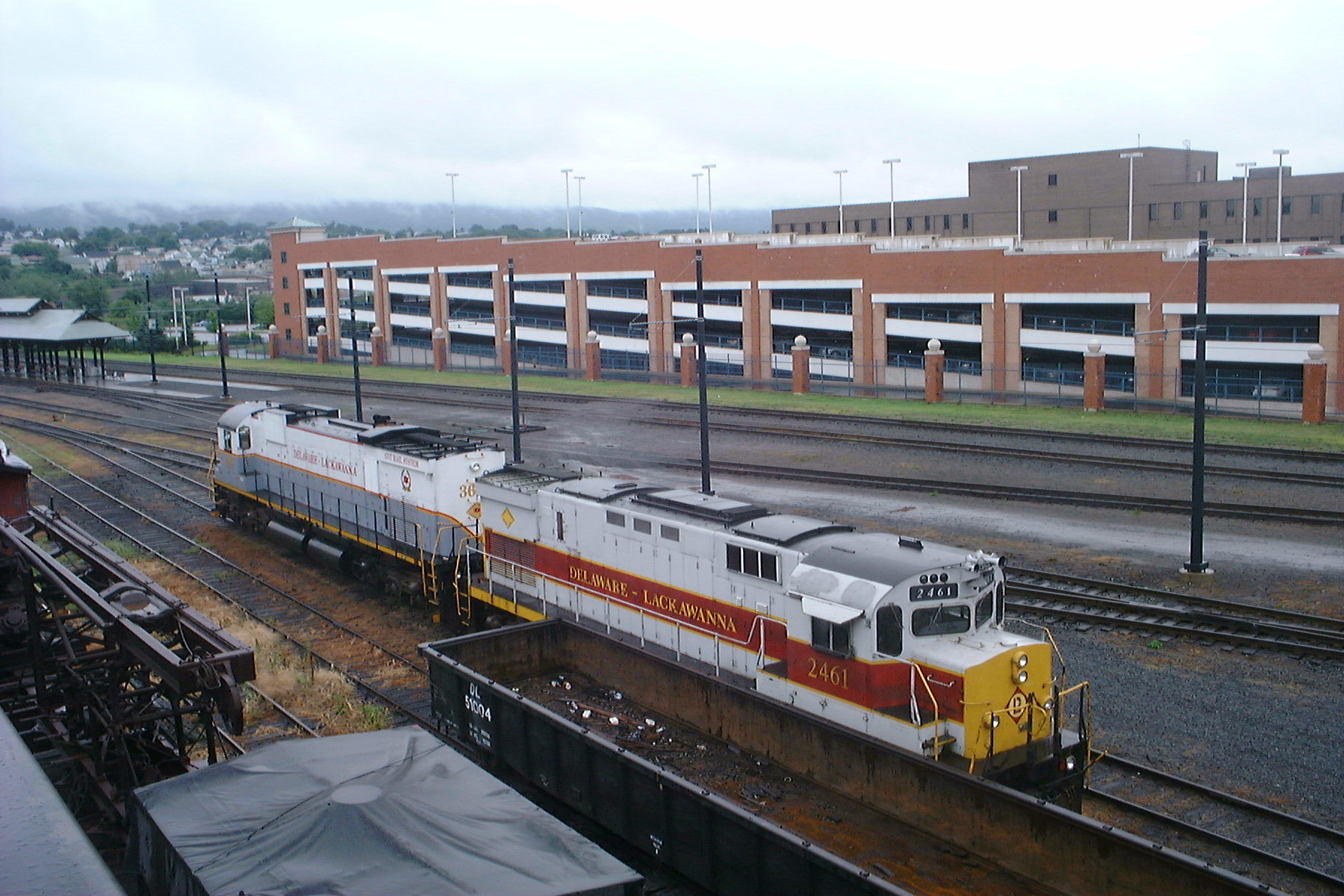 Steamtown,Scranton,PA